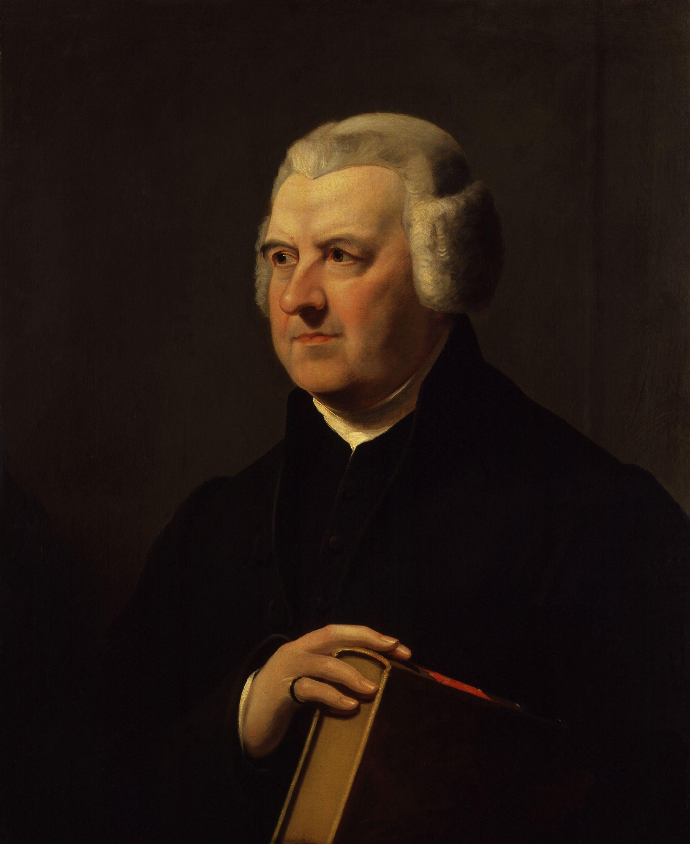 Abraham Rees (1743 – 9 June 1825), compiler of Rees's Cyclopaedia, by James Lonsdale (died 1839). All images in this batch have been confirmed as author died before 1939 according to the official death date listed by the NPG.